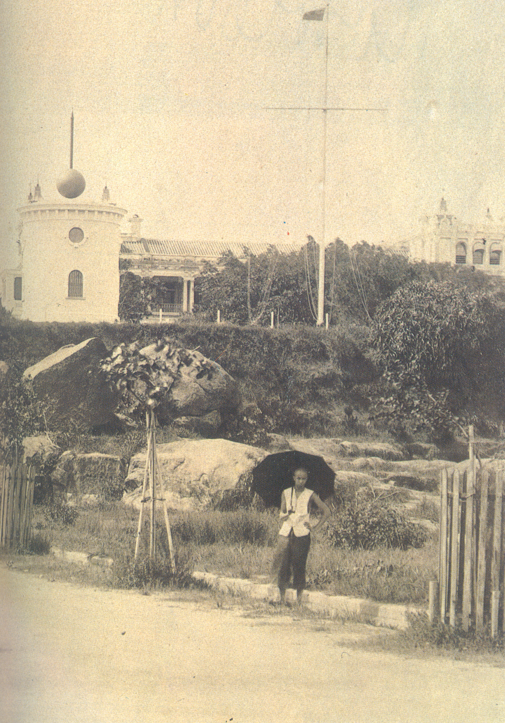 The Marine Police Heasquarters Compound and the device for hoisitng Timeballs,Hong Kong, 1908